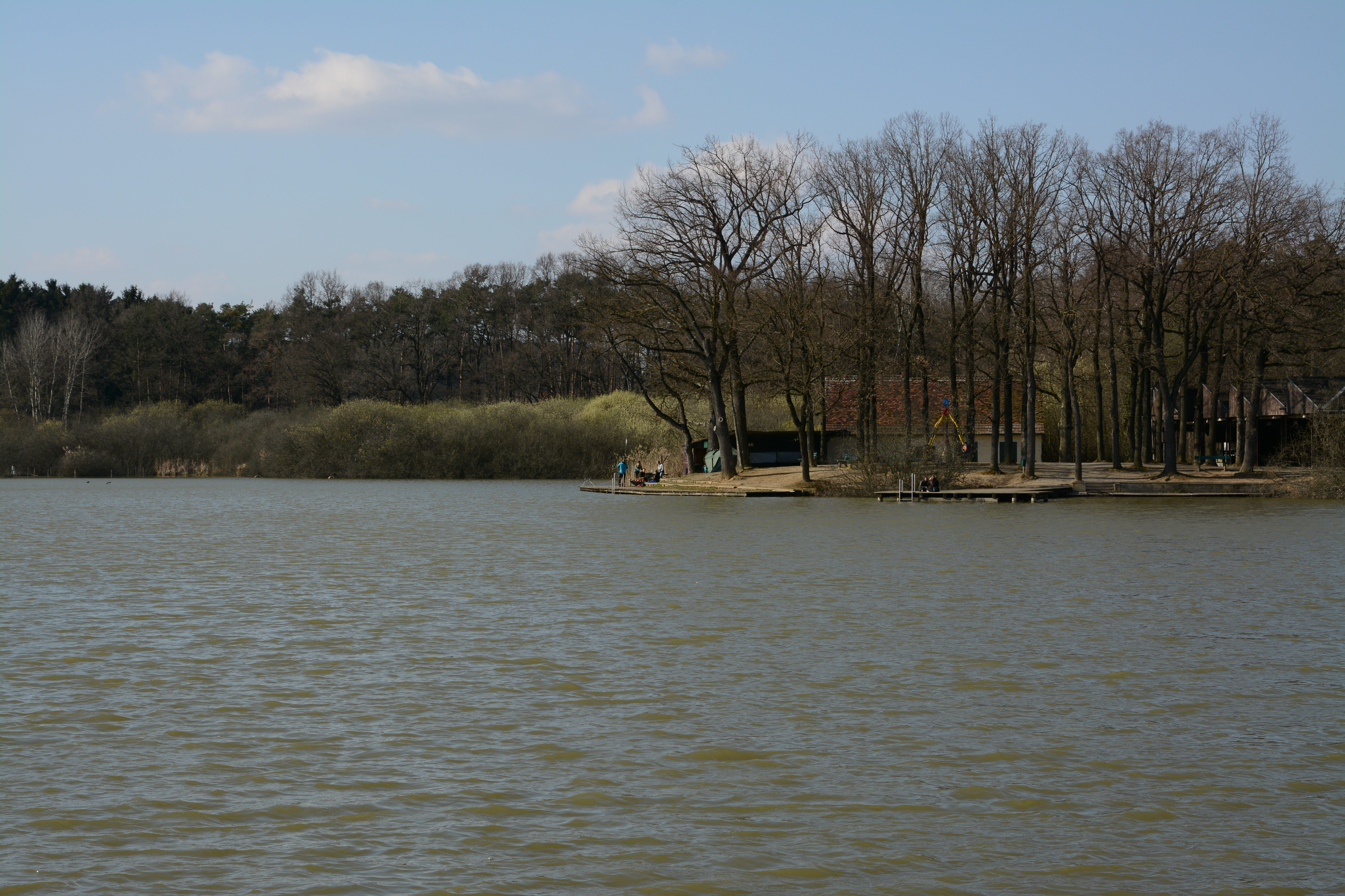 Harter Teich Gemeinde Hartl